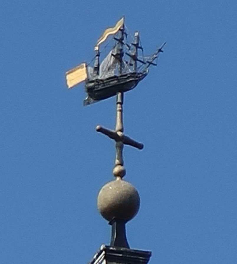 Weathervane in the form of a ship on St Nicholas Cole Abbey church, City of London